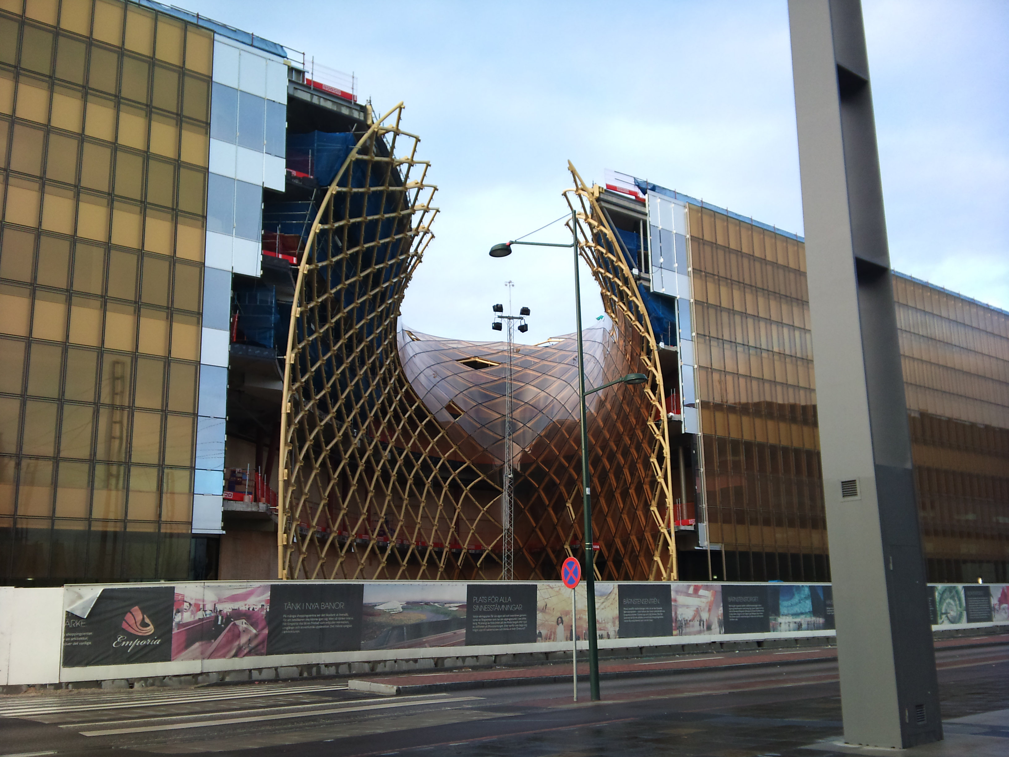 The shopping mall Emporia in the city of Malmo under construction in December 2011. Emporia is one of the biggest shopping malls in Scandinavia. The picture is taken 27 December 2011.